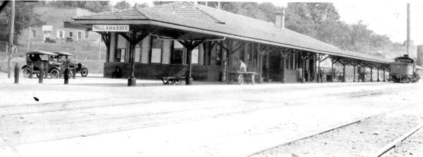 1905 Tallahassee Seaboard Air Line Railway station in 1922